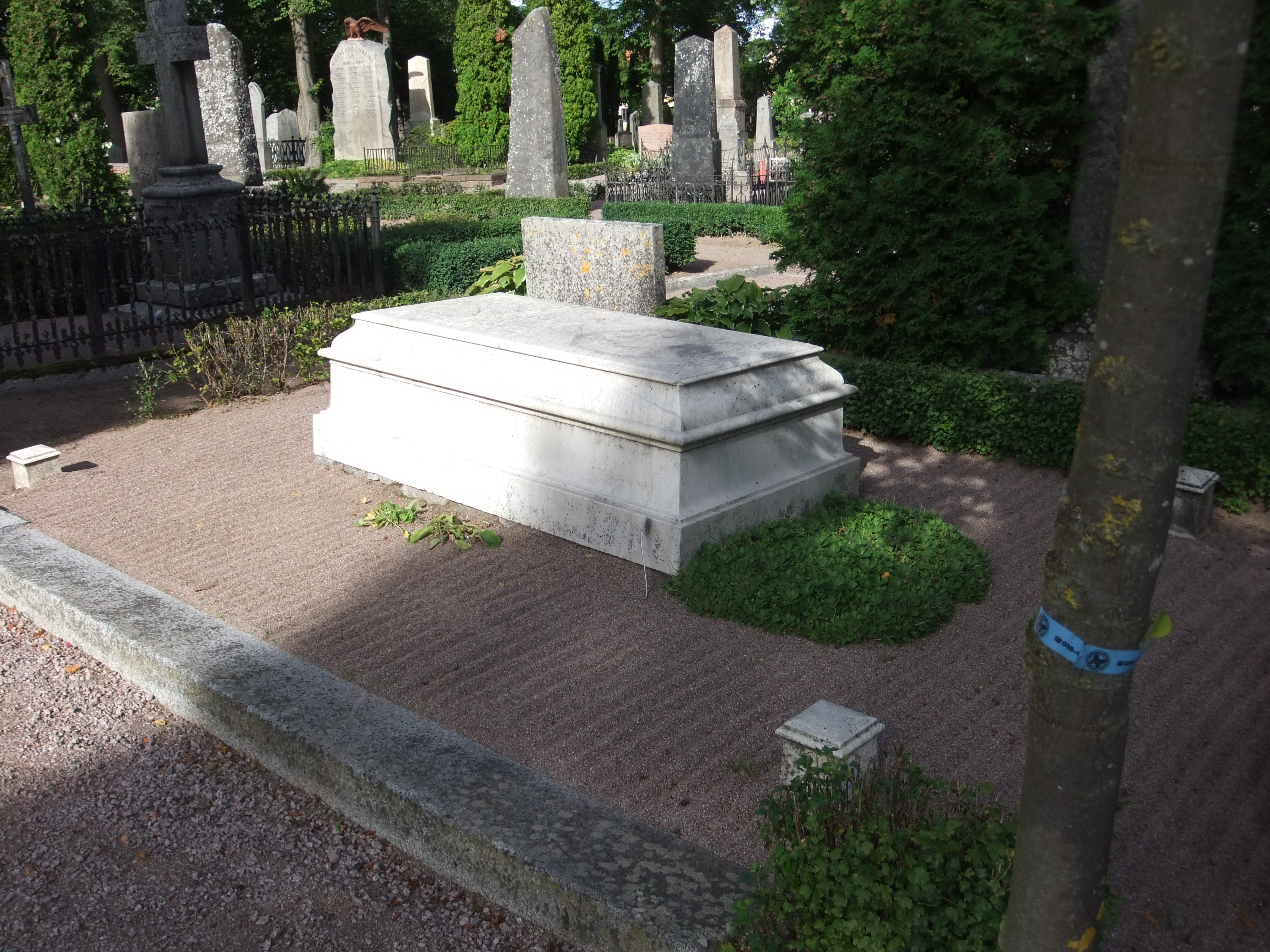 Tomb of Stockholms nation, Uppsala